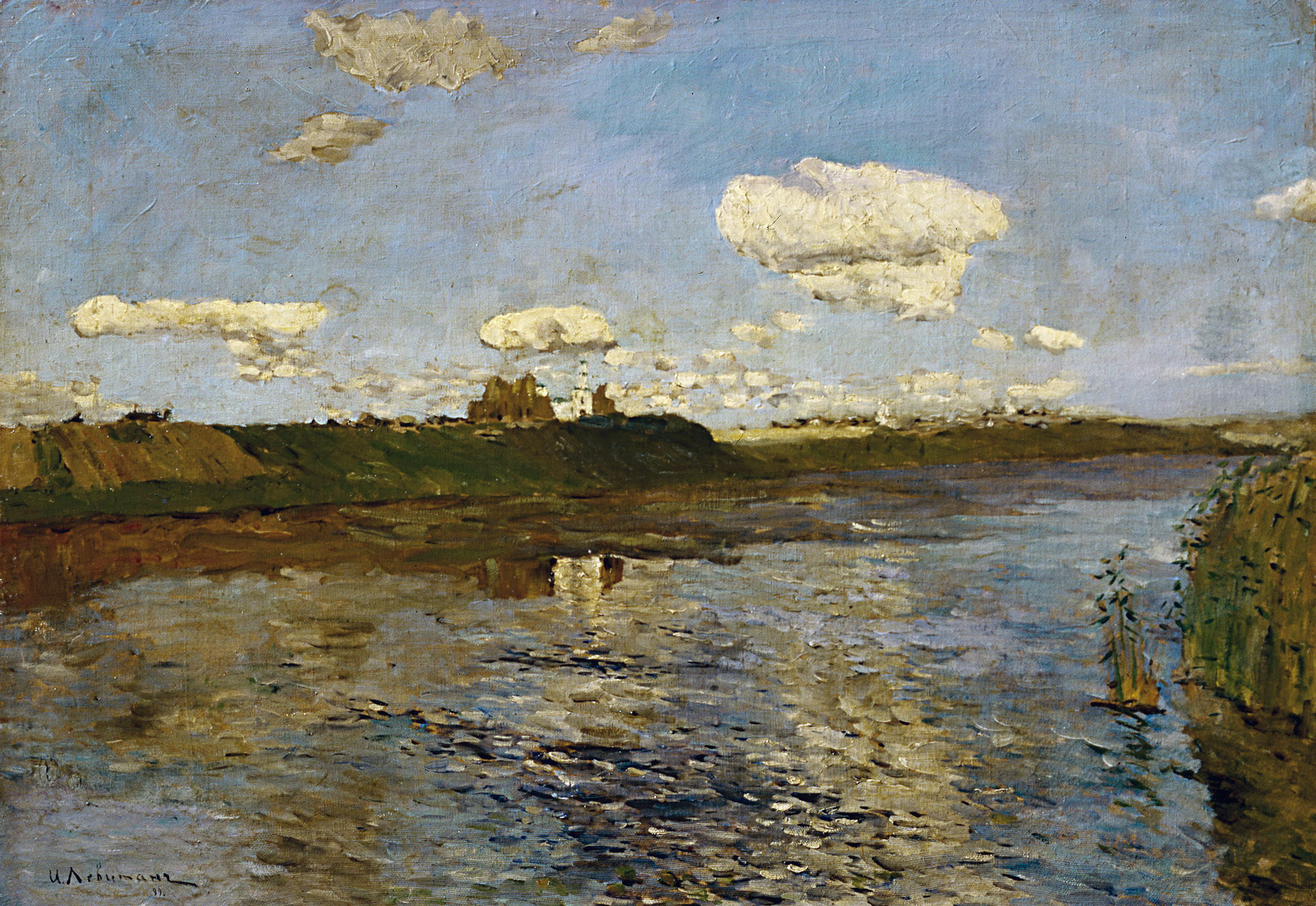 The Lake (study for the painting by Isaac Levitan, 1888-1889)